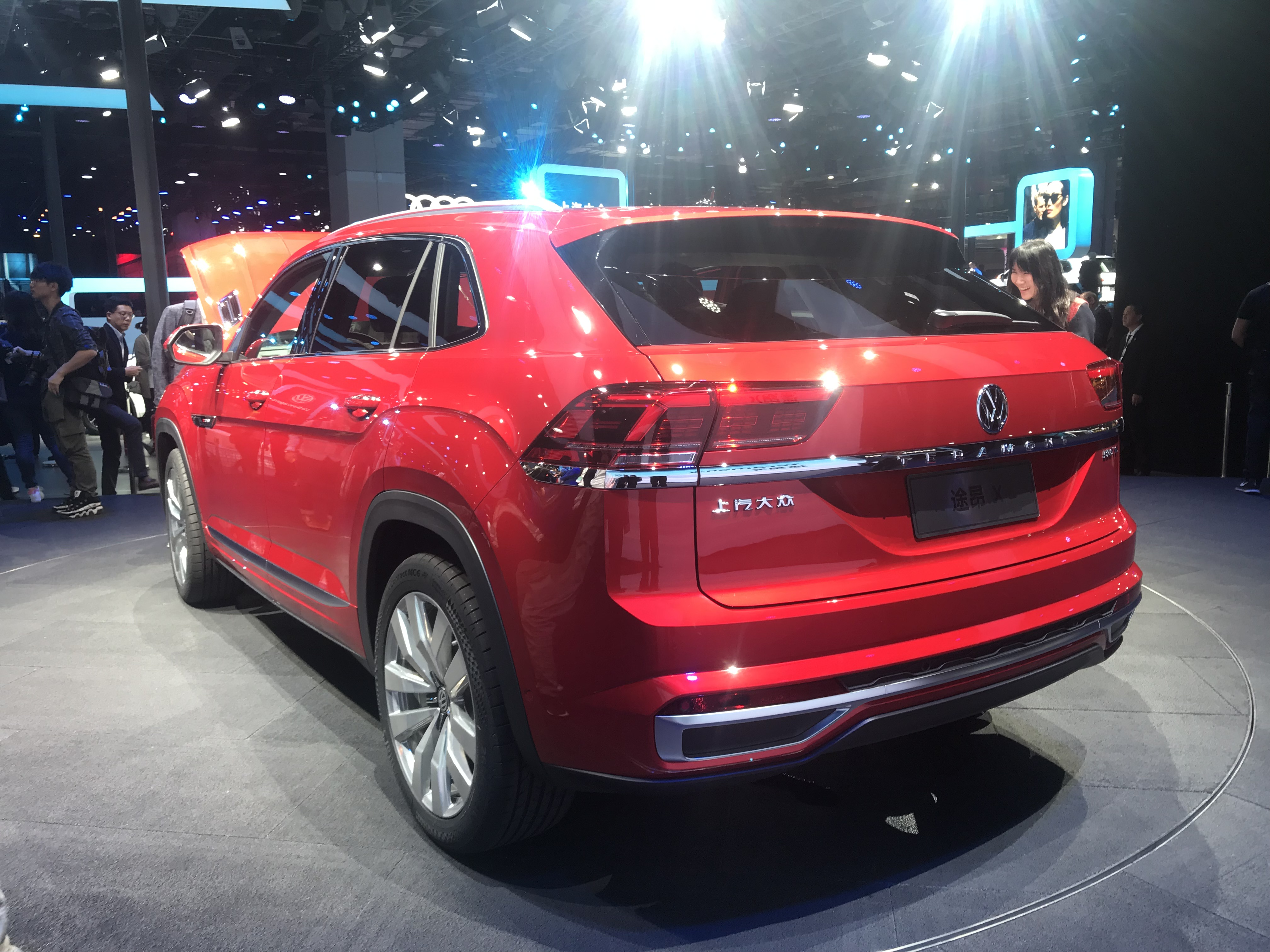 Volkswagen Teramont X rear